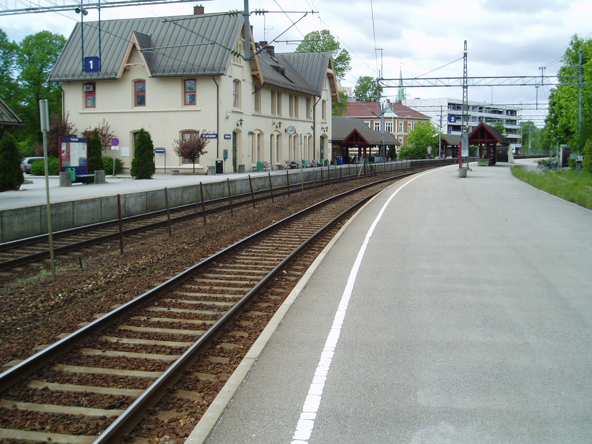 Train station in Fredrikstad, Norway. Photo by JohnM 14:00, 25 May 2006 (UTC).